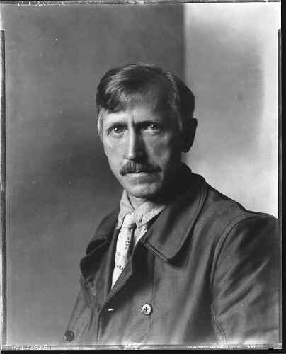 Portrait, male, bust, 8x10 black-and-white study print. Unique Media Name: SAAM-J0072838